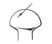 The size of a dust particle with the length of 1 micrometre relative to the size of a pin head, magnified.